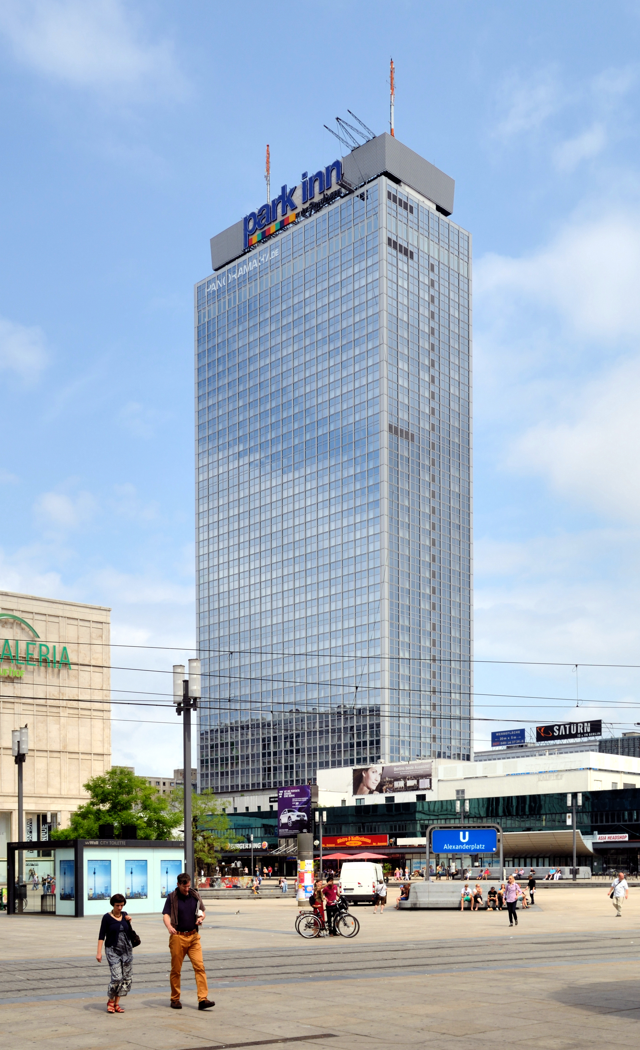 Berlin: Park Inn Hotel